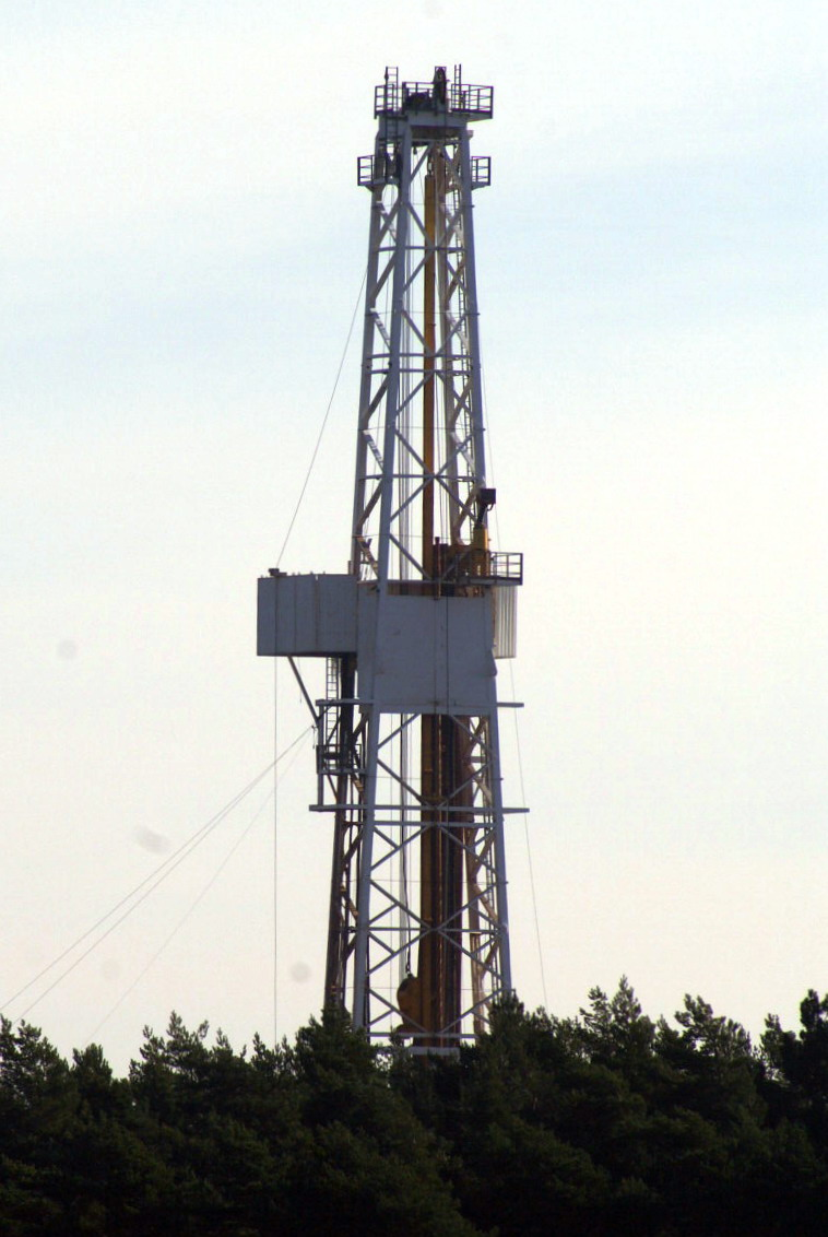 Wellsite M, oil well on the Goathorn Peninsula in the Wytch Farm oilfield, Poole Harbour, Dorset, from the north-west.